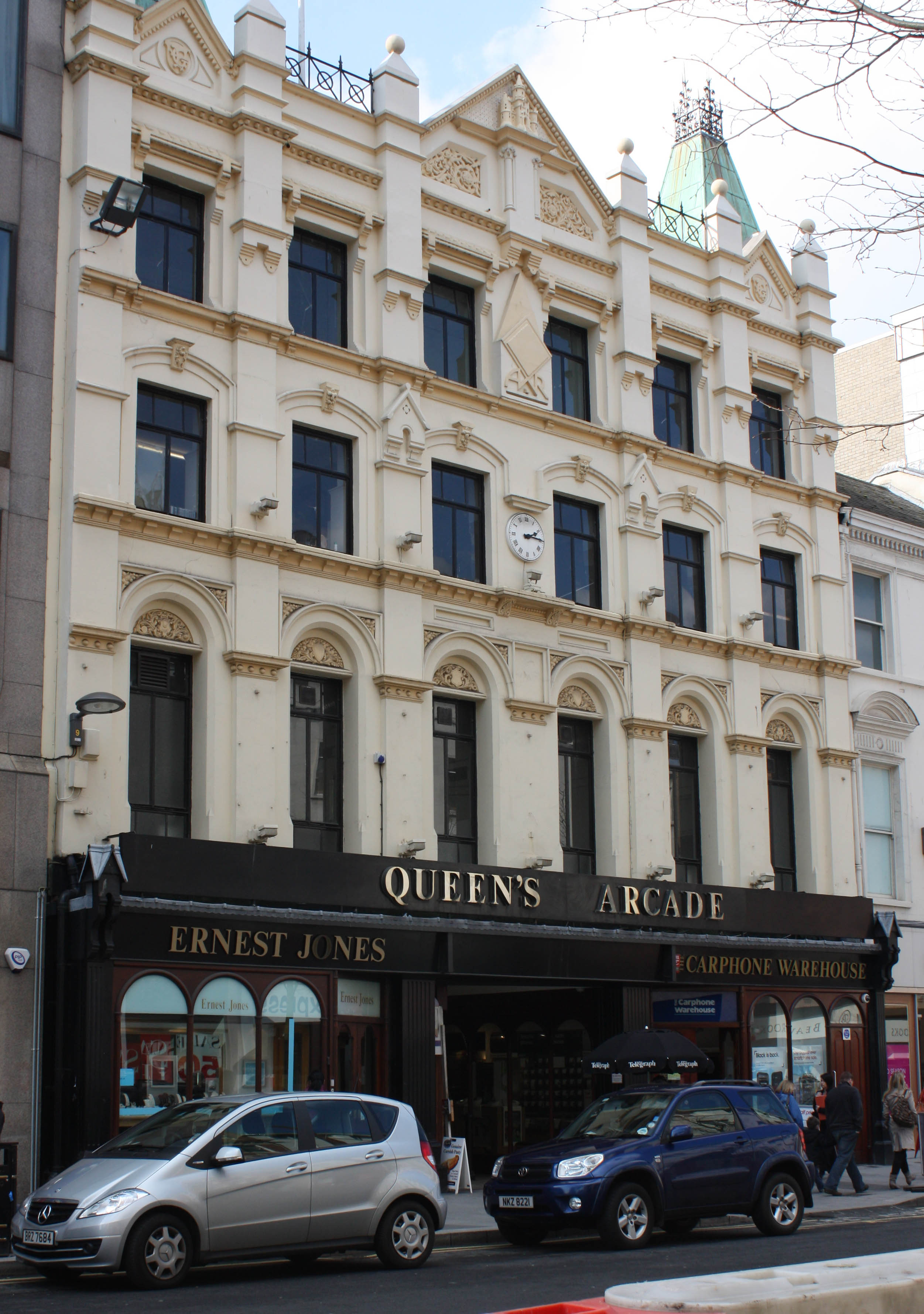 Queen's Arcade, entrance on Donegall Place, Belfast, Northern Ireland, March 2011